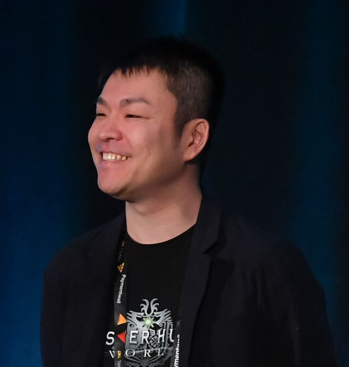 Yoyo Tokuda at the 2018 Game Developers Conference